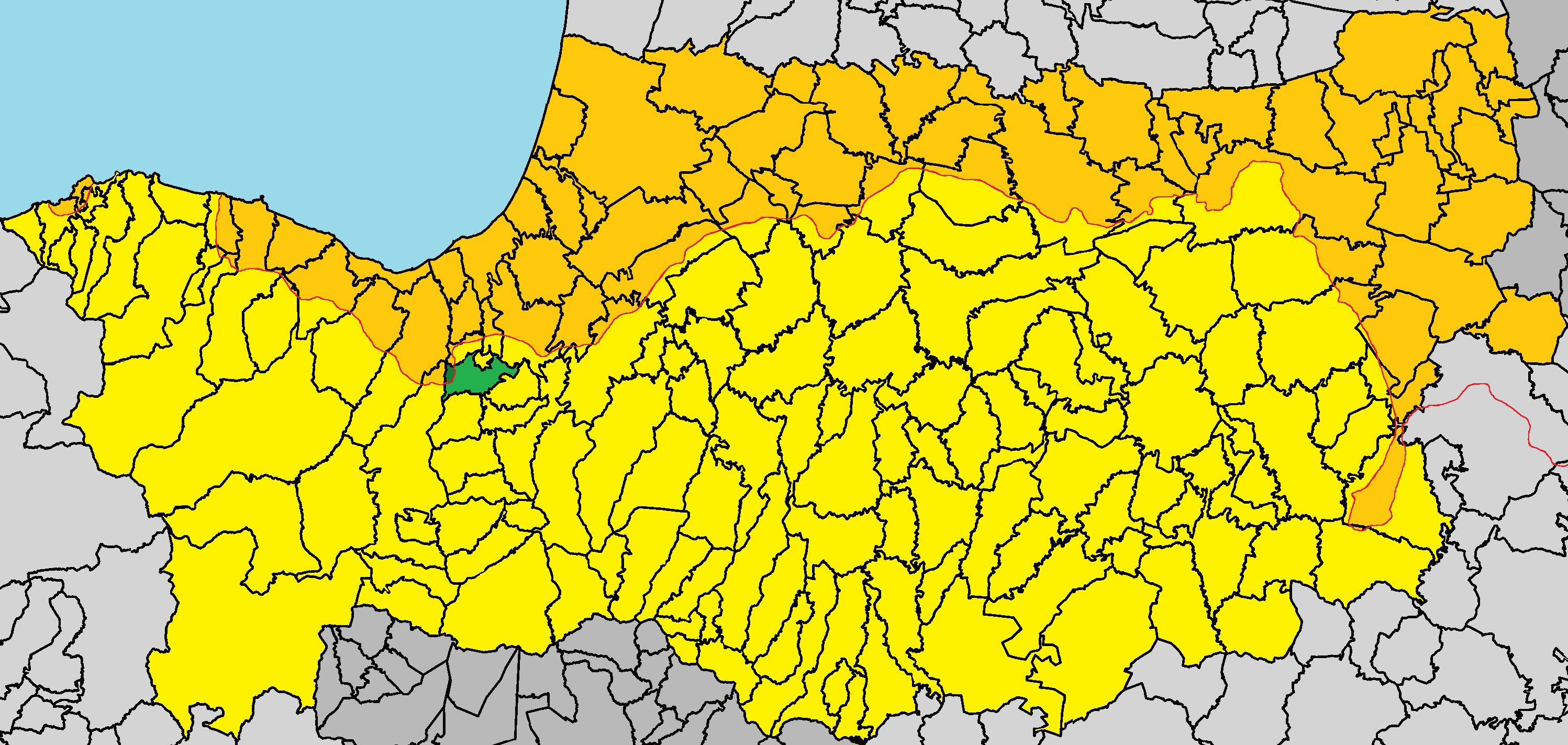 Katydata in Nicosia District (de jure).